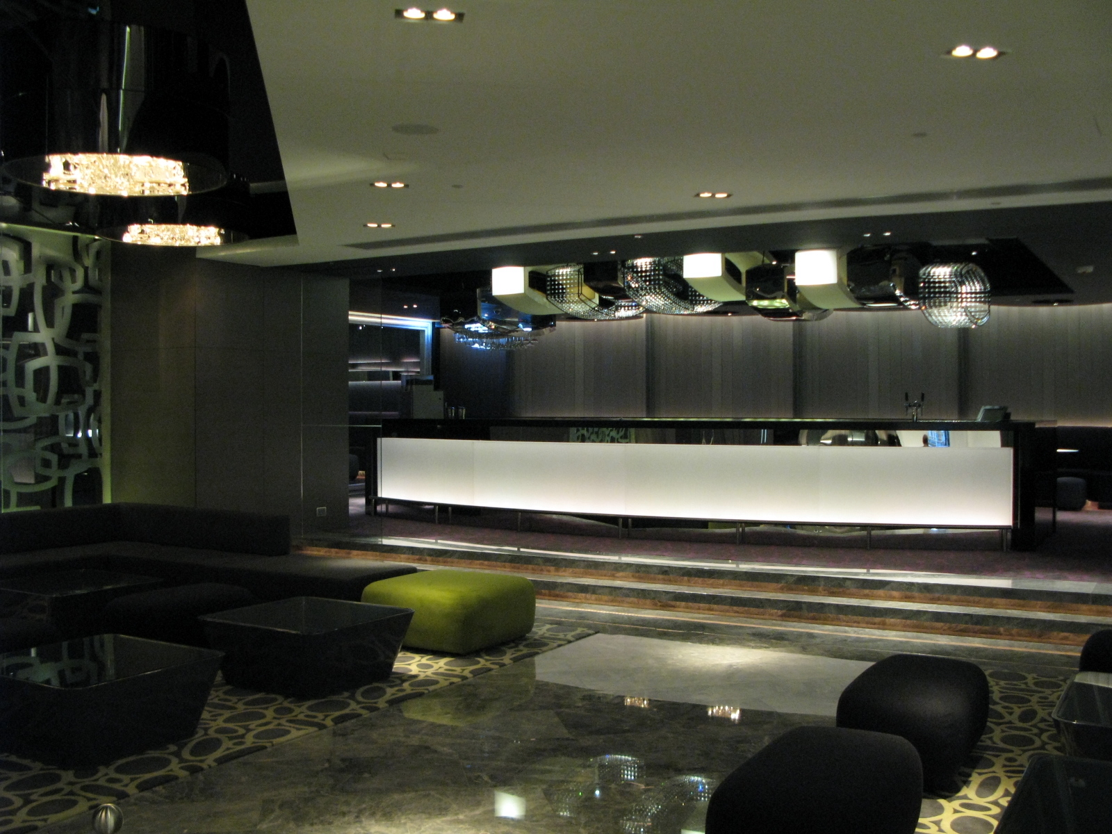 The Mira Hong Kong Room One Bar & Lounge